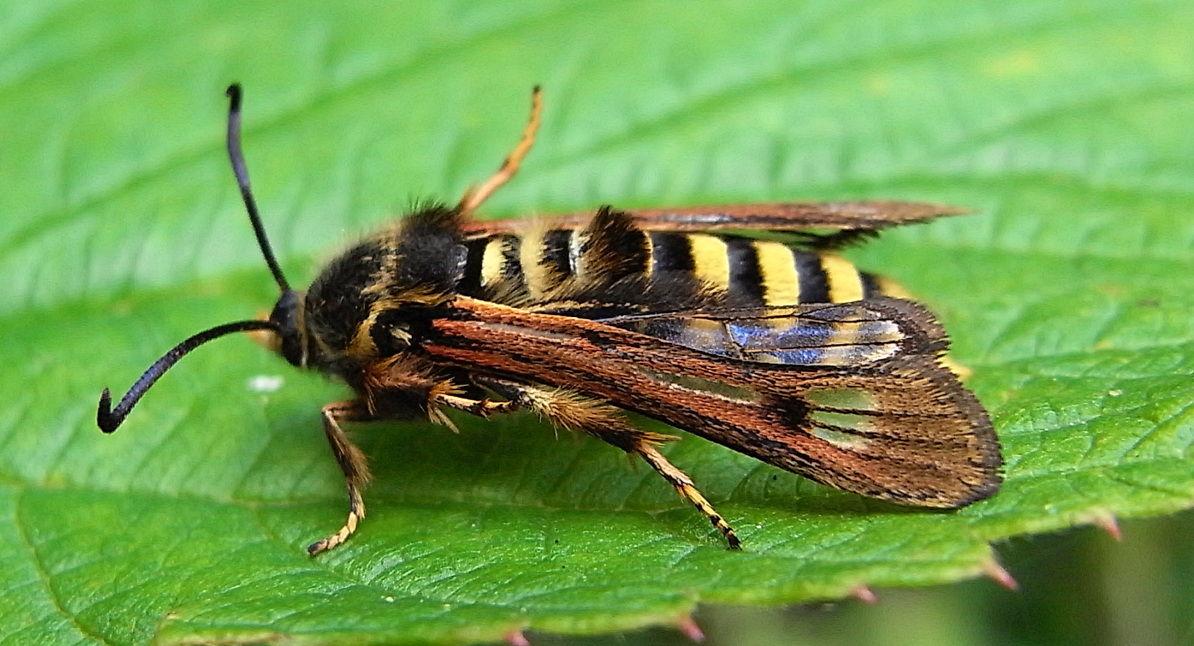 Pennisetia hylaeiformis, photo taken 2009-08-13 near Tuttlingen, Southern Germany Ricoh R8